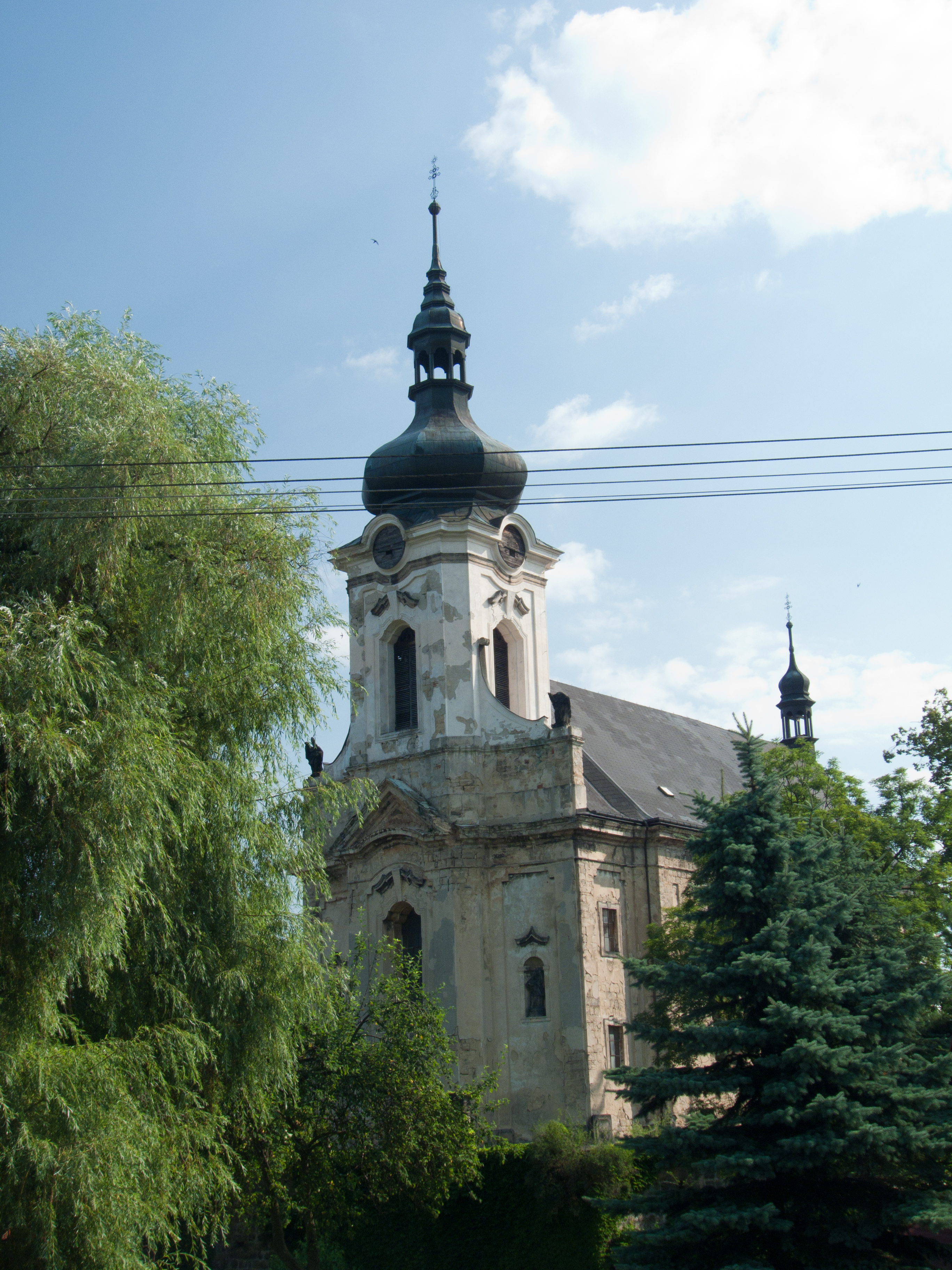 Assumption of Virgin Mary Church in the village of Arnoltice, Děčín District, Czech Republic, as seen from the south-west